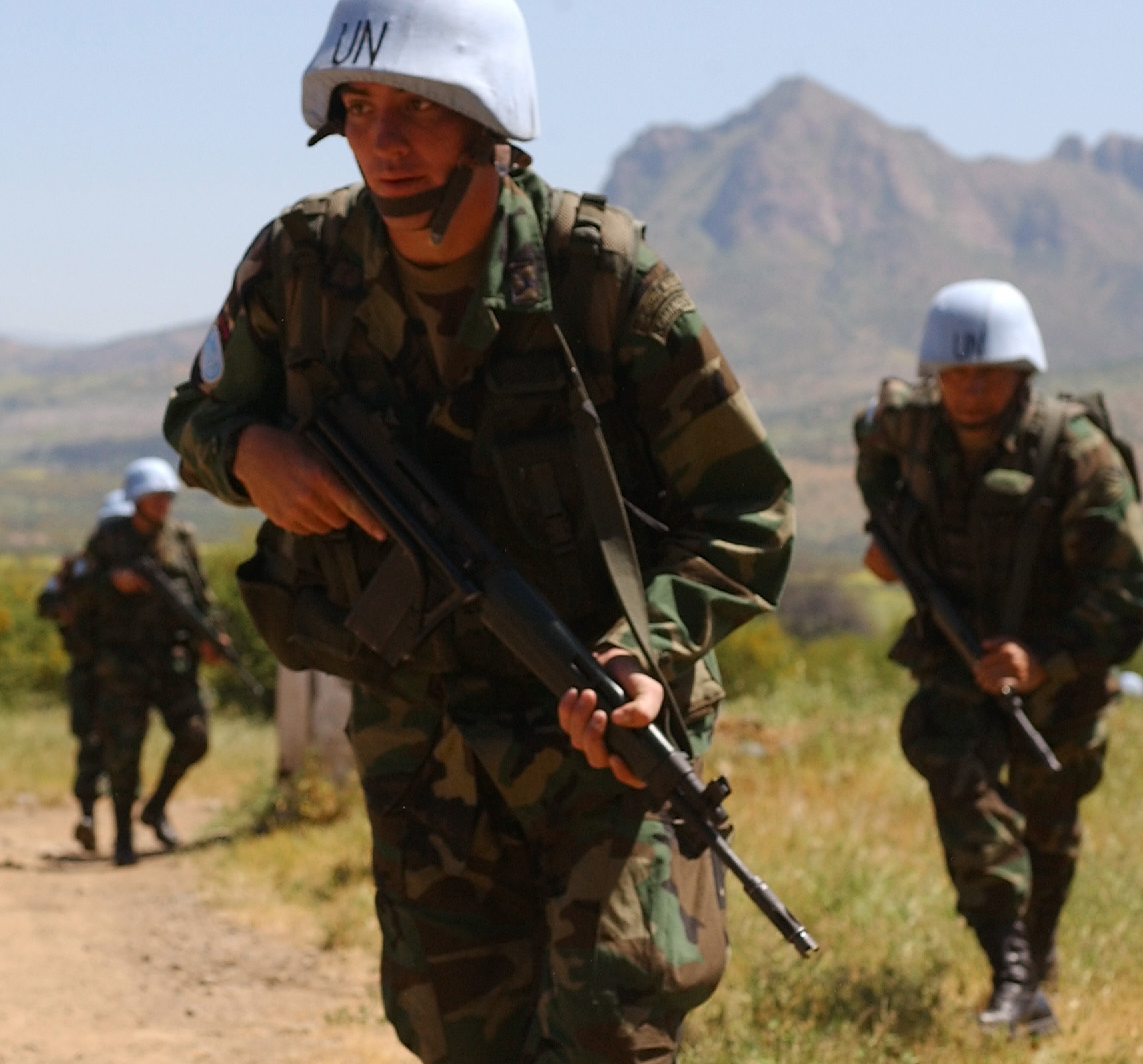 Ecuadorian Army soldiers bound towards their objective during a Disarmament exercise scenario, Oct. 17, 2002. The exercise is one of ten lanes in Cabanas 2002 Chile, held in Fuerto Lautaro, Chile. Cabanas 2002 Chile is a multinational combined readiness training exercise centered around peacekeeping operational tasks. This exercise provides an opportunity for over 1,300 military and civilian personnel from Argentina, Bolivia, Brazil, Chile, Colombia, Ecuador, Paraguay, Peru, Uruguay, and the United States to increase their state of readiness in combined multinational peacekeeping operations and a forum to encourage human rights. (U.S. Air Force photo by Senior Airman JoAnn S. Makinano) (Released)..